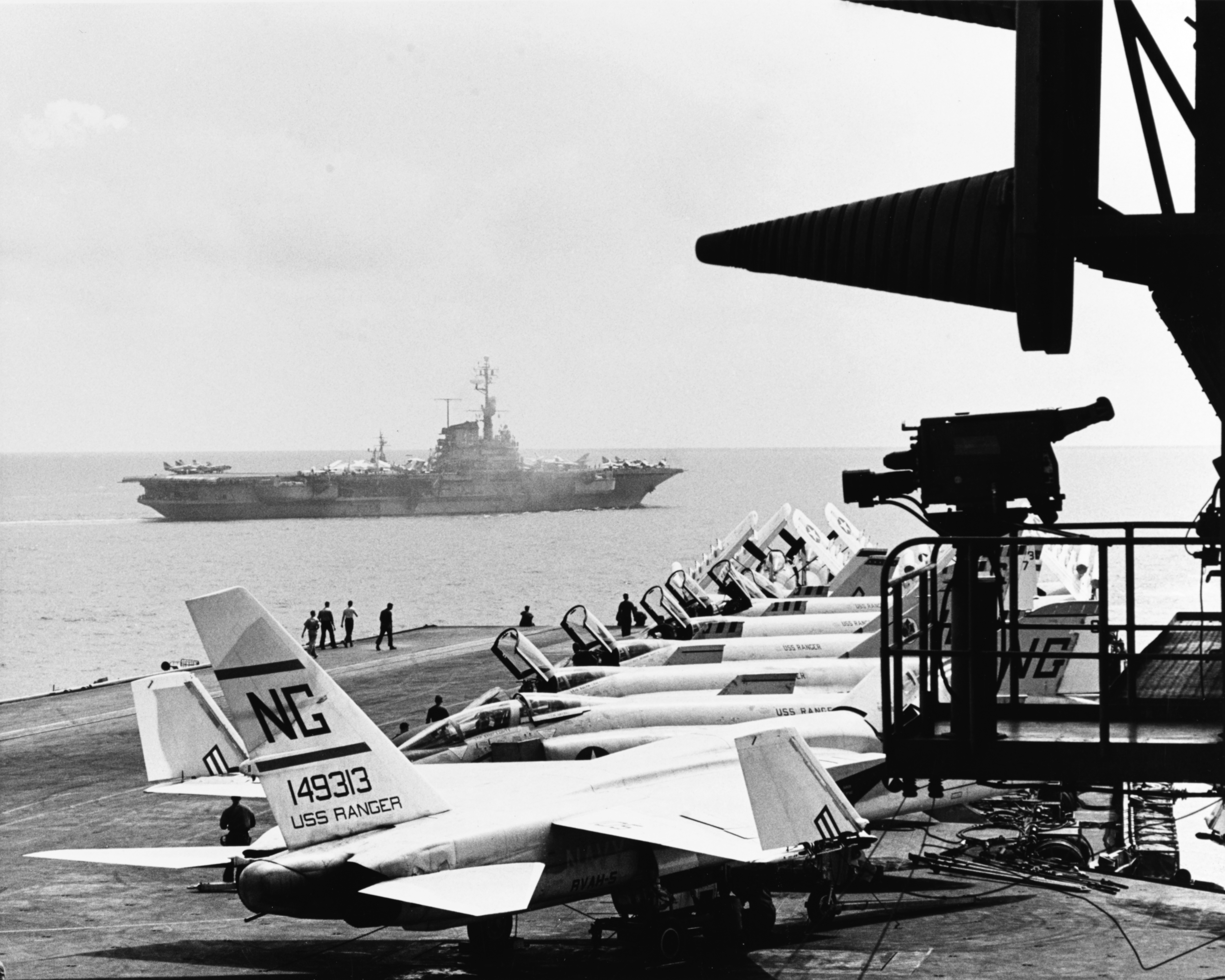 Aircraft aboard the U.S. Navy aircraft carrier USS Ranger (CVA-61) in the South China Sea, 24 March 1965, during the early days of the air campaign against North Vietnam. Ranger, with assigned Attack Carrier Air Wing 9 (CVW-9) was deployed to Vietnam from 4 August 1964 to 6 May 1965. In the foreground is a North American RA-5C Vigilante (BuNo 149313) assigned to Heavy Reconnaissance Squadron 5 (RVAH-5) "Savage Sons". The planes parked beyond it include McDonnell F-4B Phantom II of Fighter Squadron 92 (VF-92) and VF-96 and Douglas A-1H/J Skyraider of Attack Squadron 95 (VA-95). In the background, the carrier USS Coral Sea (CVA-43) steams past Ranger. Coral Sea, with assigned CVW-15, was deployed to Vietnam from 7 December 1964 to 1 November 1965.